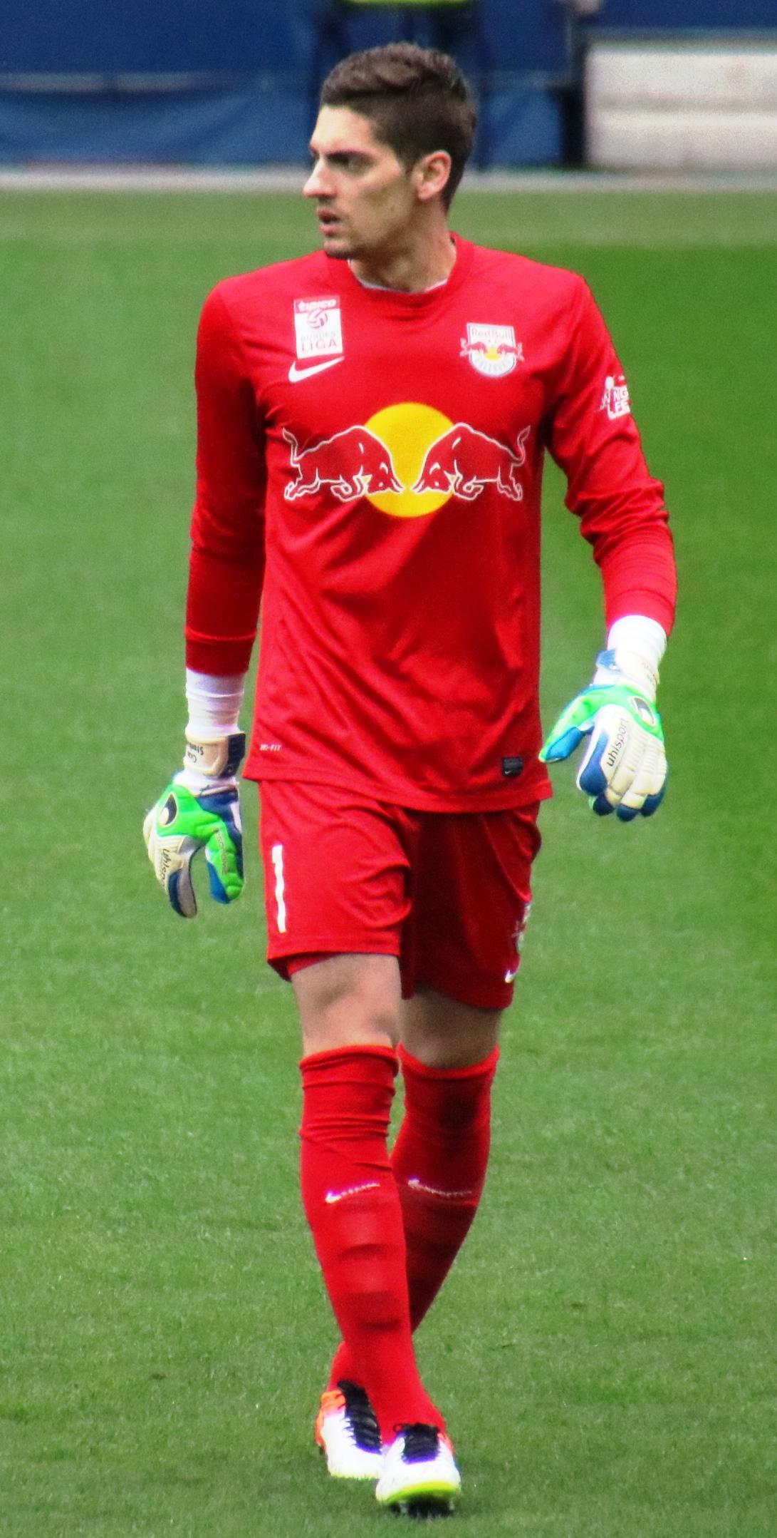 Austrian Bundesliga league match